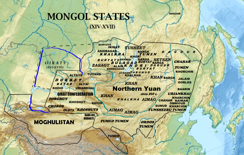 Based on File:Asia laea relief location map.jpg. Data source: "History of Mongolia" 2003